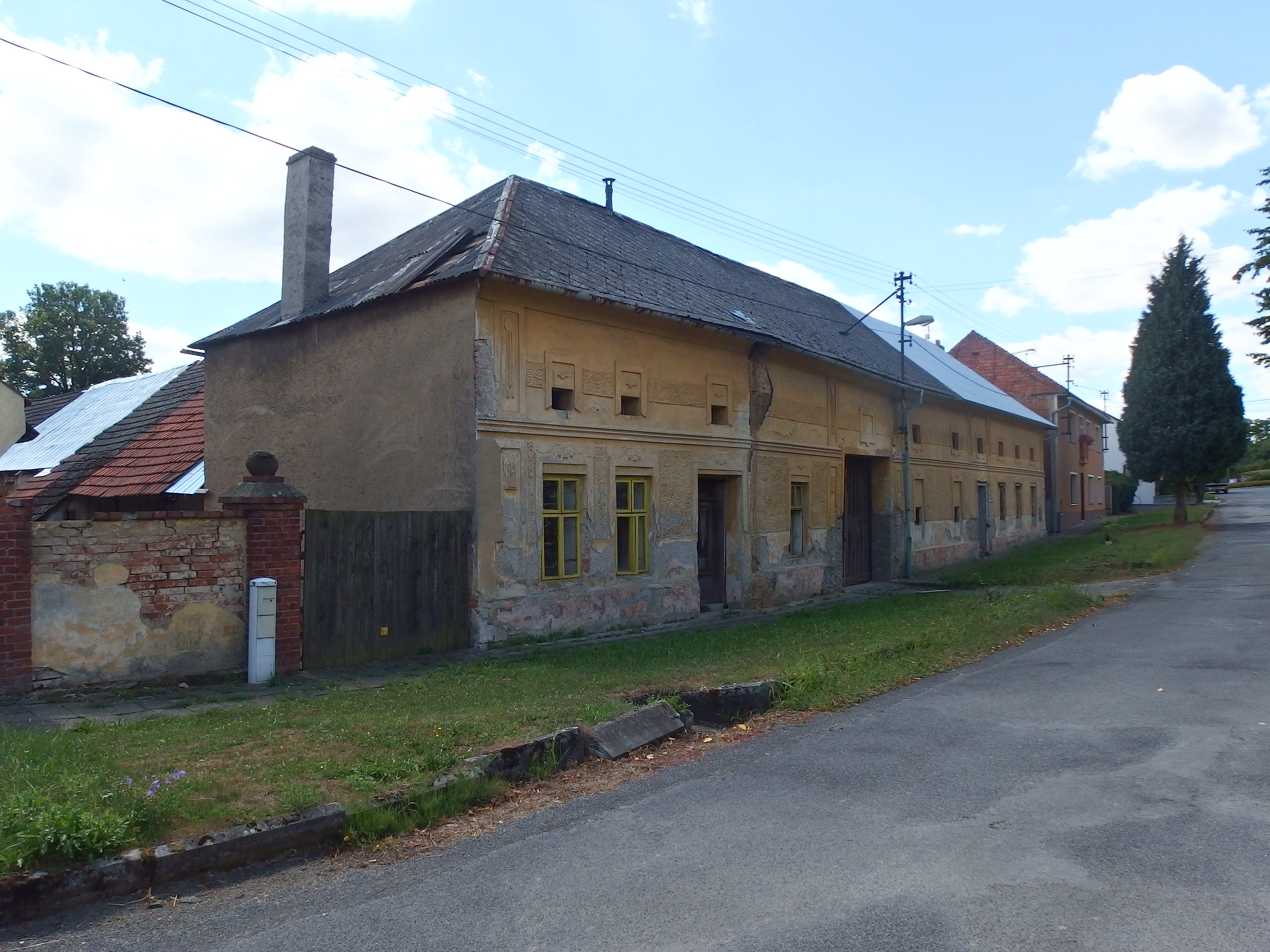 Nahošovice, Přerov District, Czech Republic.